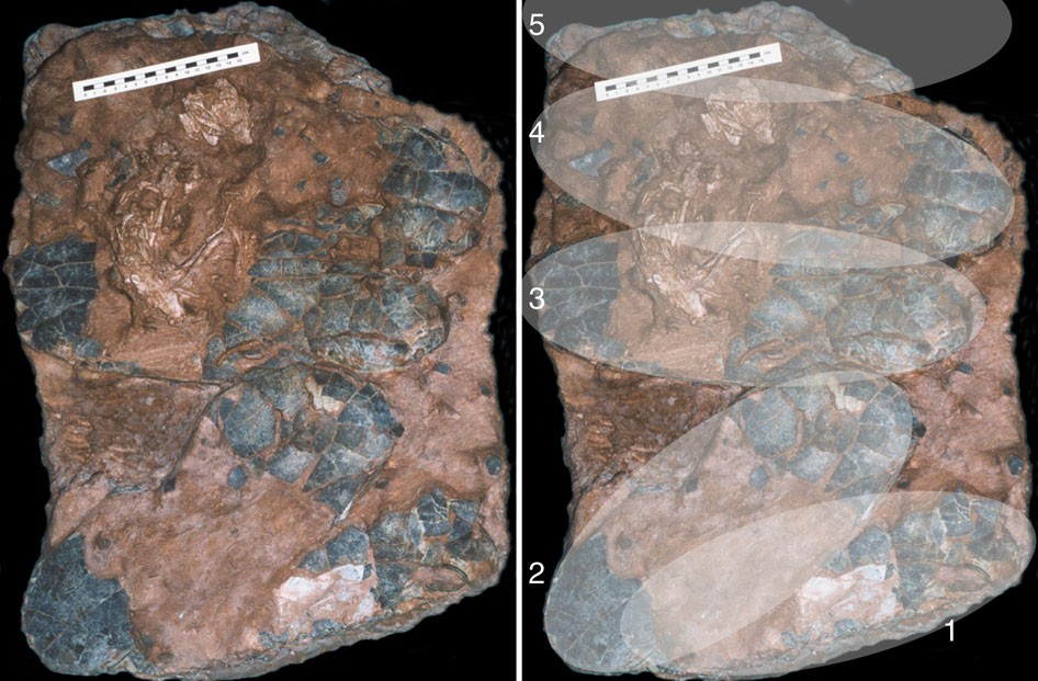 Right image shows schematic overlay of approximate locations of individual eggs. Eggs 1 through 4 are in an upper layer just beneath the skeleton, whereas Egg 5 is in a lower layer of the block. Scale bar is in centimetre.